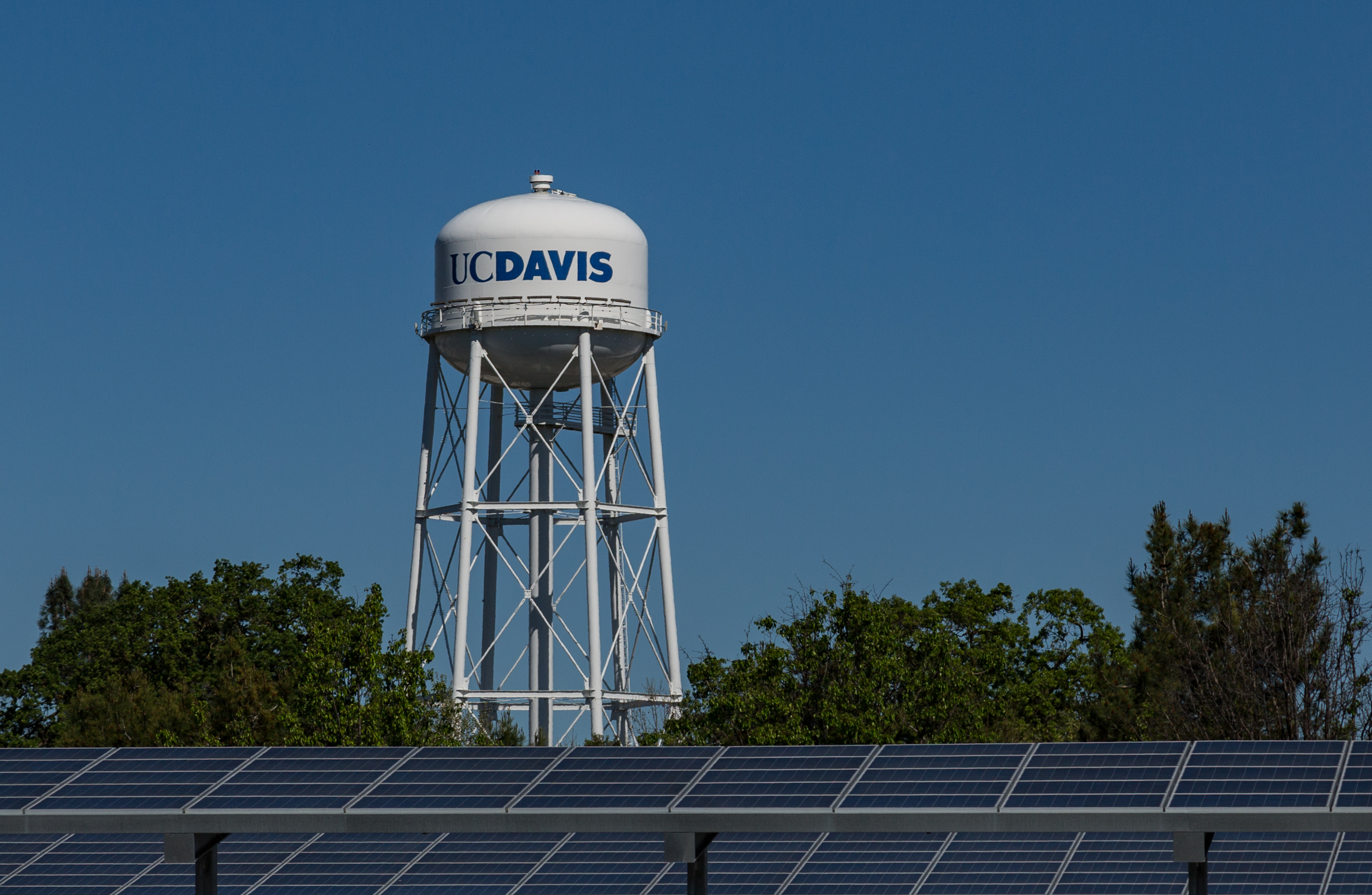 Water tower and solar panels